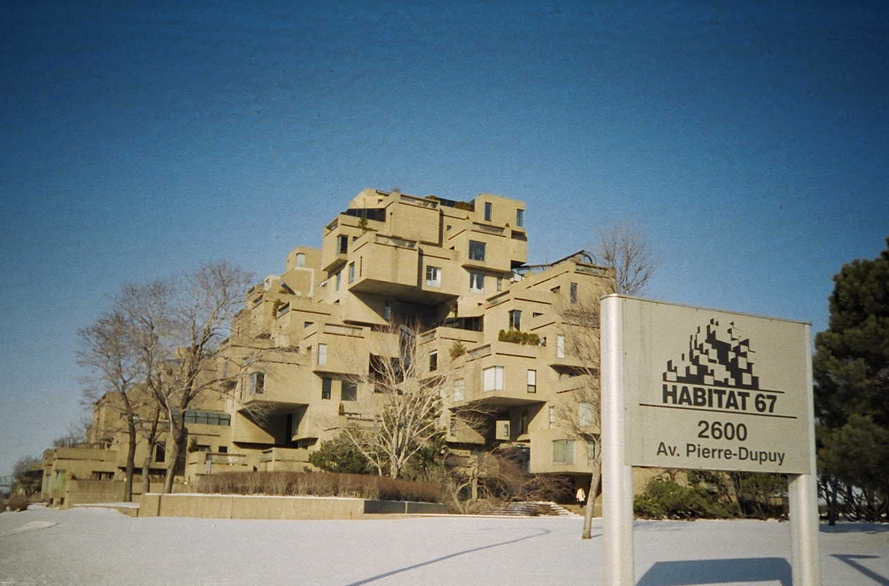 Habitat 67 by Moshe Safdie in Montreal winter. I have taken this picture with my camera and I am placing it in the public domain.